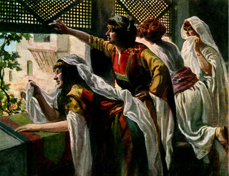 Michal Watching David from a Window, as in 2 Samuel 6:16: "And it was so, as the ark of the Lord came into the city of David, that Michal the daughter of Saul looked out at the window, and saw king David leaping and dancing before the Lord; and she despised him in her heart."; watercolor circa 1896–1902 by James Tissot